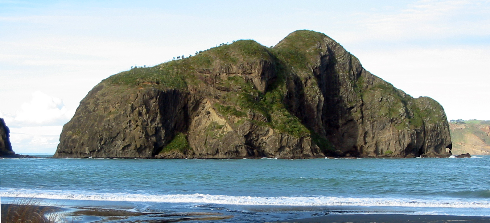 Paratutae Island, Manukau Harbour, near Auckland, New Zealand. In a tradition of the Maori tribes of South Manukau (Tainui) recorded in 1842 Kupe came with his grandfather, Maru-tawiti, and his brother-in-law Hoturapa and several others. They came to survey the land and return again. Nothing is known of the land from which they sailed. Kupe sailed around North Cape. At the Manukau Heads he struck Paratutae rock with his paddle, leaving an imprint which is visible to this day. See the great indentations in the cliff face on the photo. Awhitu Peninsula, South Manukau, visible in distance, far right.